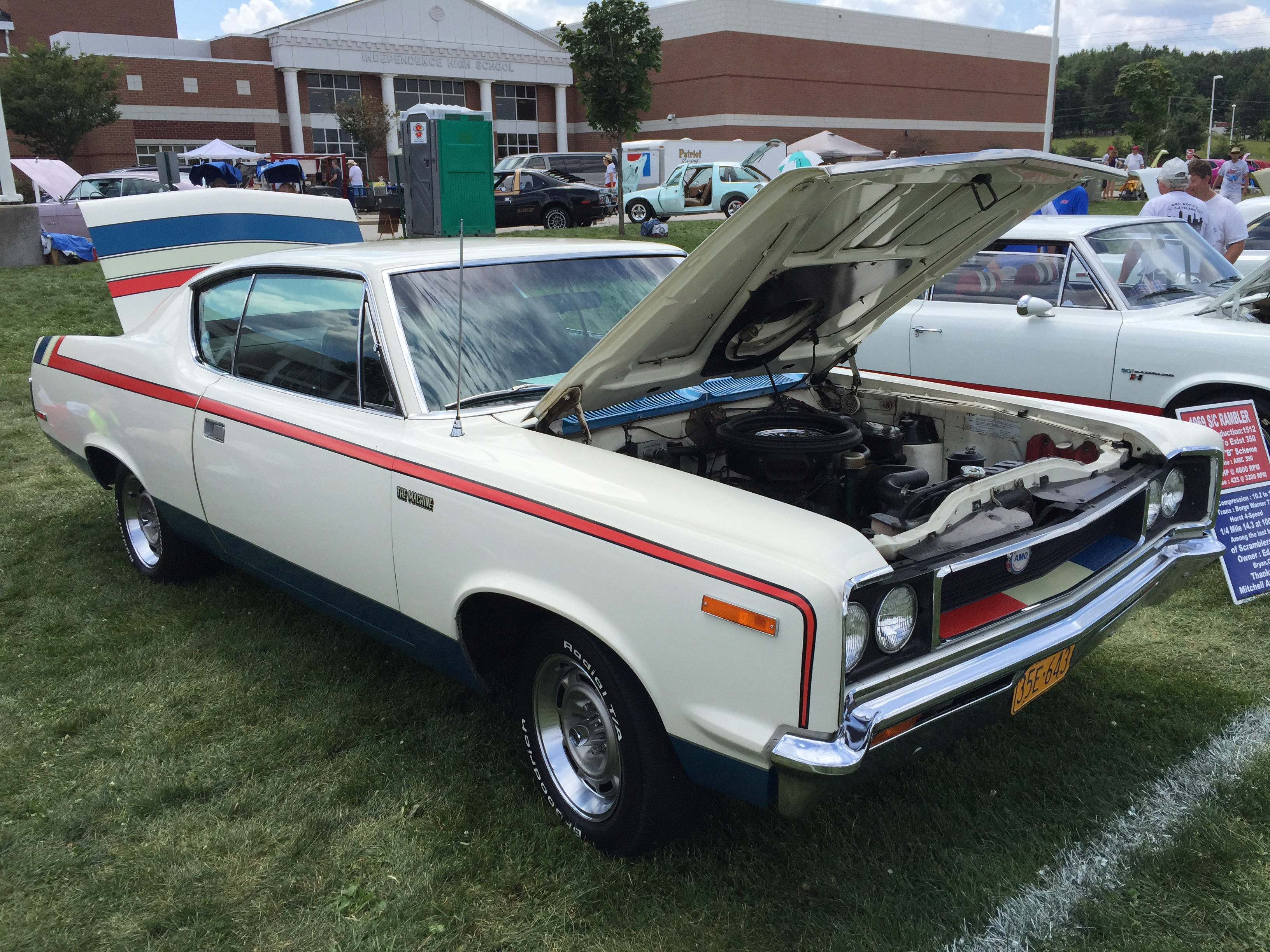 1970 AMC Rebel - The Machine - a two-door intermediate-sized "muscle car" by American Motors Corporation. This car is finished in "Frost White" with 3M's red, white, and blue reflective stripes, as well as an "Electric Blue" hood and ram-air hood scoop with integral tachometer, and lower bodyside finish. The interior has the standard front bucket seats with The Machine's signature red,white, and blue upholstered center armrest, as well as the optional console mounted automatic transmission shifter (standard was a four-speed manual with Hurst shifter). The V8 is AMC's 390 cu in (6.4 L) producing 340 hp and 430 lb·ft of torque @ 3600 rpm. Standard are the special 15x7 wheels with the appearance of a cast alloy wheel. Picture taken during the American Motors Owners Association (AMO) annual convention that was held July 2015 near Cleveland, Ohio.